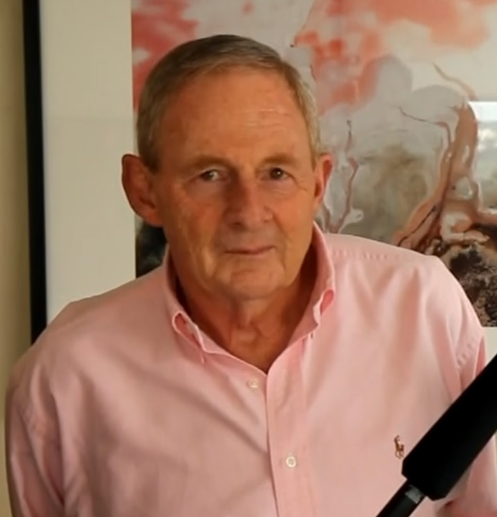 At the heart of this true story is Damien Oliver, a young jockey who loses his only brother in a tragic racing accident, hauntingly reflecting of the way their father died 27 years earlier. After suffering through a series of discouraging defeats, Damien teams with Irish trainer Dermot Weld, and triumphs at the 2002 Melbourne Cup in one of the most thrilling finales in sporting history. Director: Simon Wincer Cast: Brendan Gleeson, Alice Parkinson, Stephen Curry, Daniel MacPherson, Jodi Gordon, Shaun Micallef, Bobby Fox, Tom Burlinson, Bill Hunter, Colleen Hewett, Andrew Curry Studio: Roadshow Films Opens in Australian Cinemas on the 13th October 2011 To see the full trailer head to For more movie news, reviews, interviews and giveaways check out